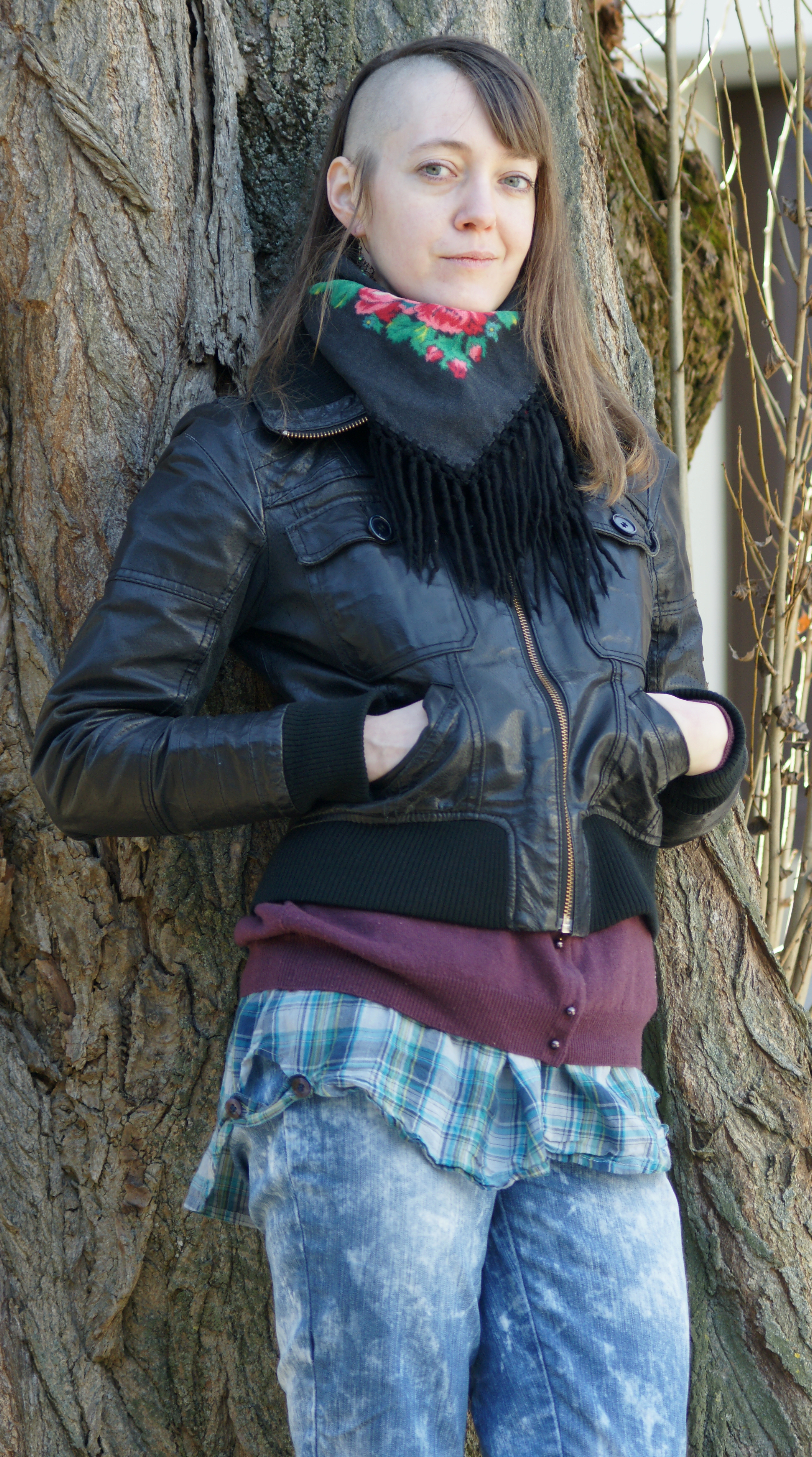 Swedish author Lina Arvidsson during a visit to Göteborg 2017.